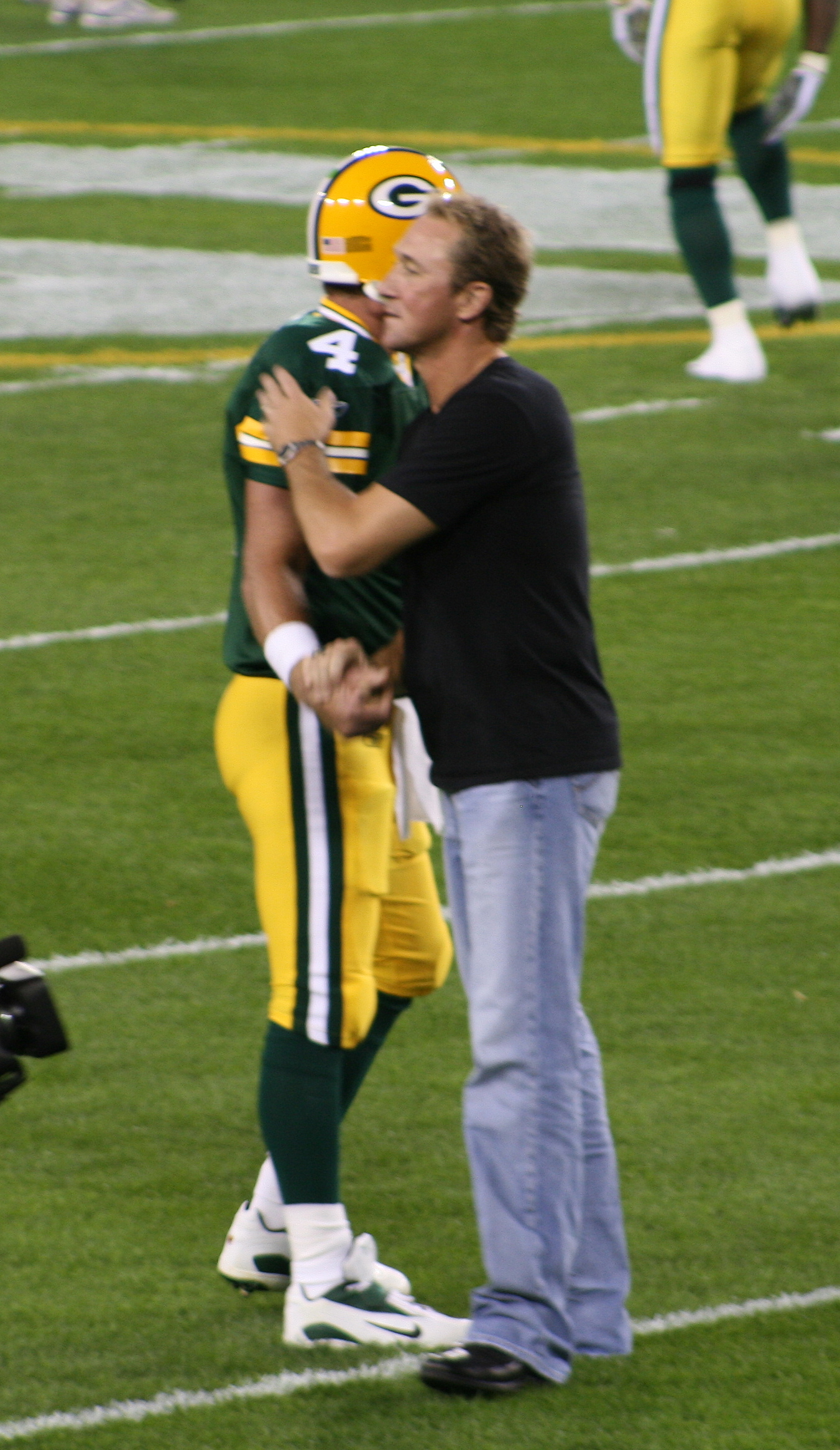 The last two starting quarterbacks of the Green Bay Backers over the last 16 years: Don Majkowski visits with Brett Favre during warmups.